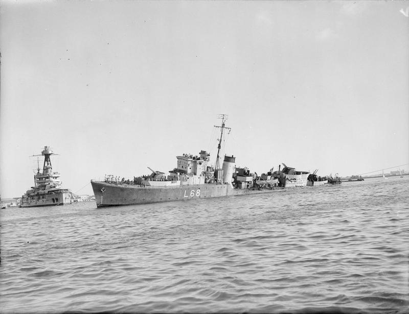 HMS Eridge Brought Safely Back To Harbour. 29 August 1942, Alexandria Harbour. the British Hunt Class Destroyer As She Was Towed Back To Harbour After Being Torpedoed by a German E-boat. As the ERIDGE passed the French battleship LORRAINE.